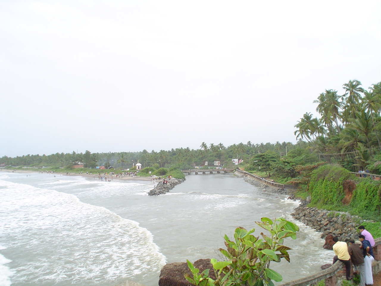 Picture of Payyambalam Beach. Photograph: Shijaz Abdulla